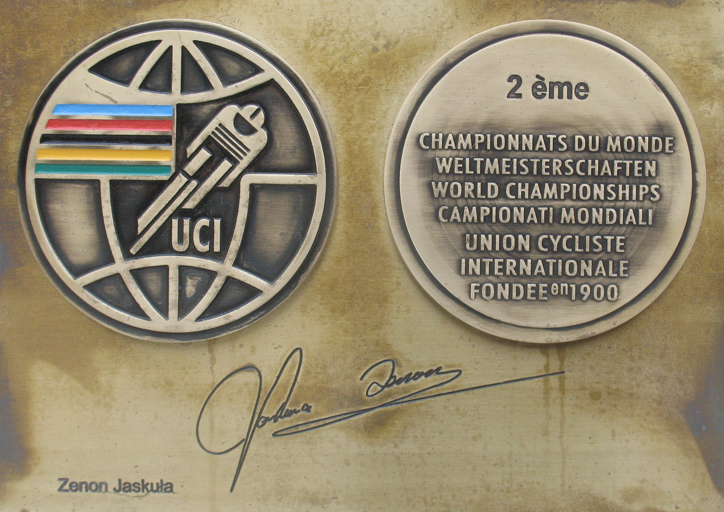 Zenon Jaskula medal and autograph in Avenue of Sport Stars Dziwnów